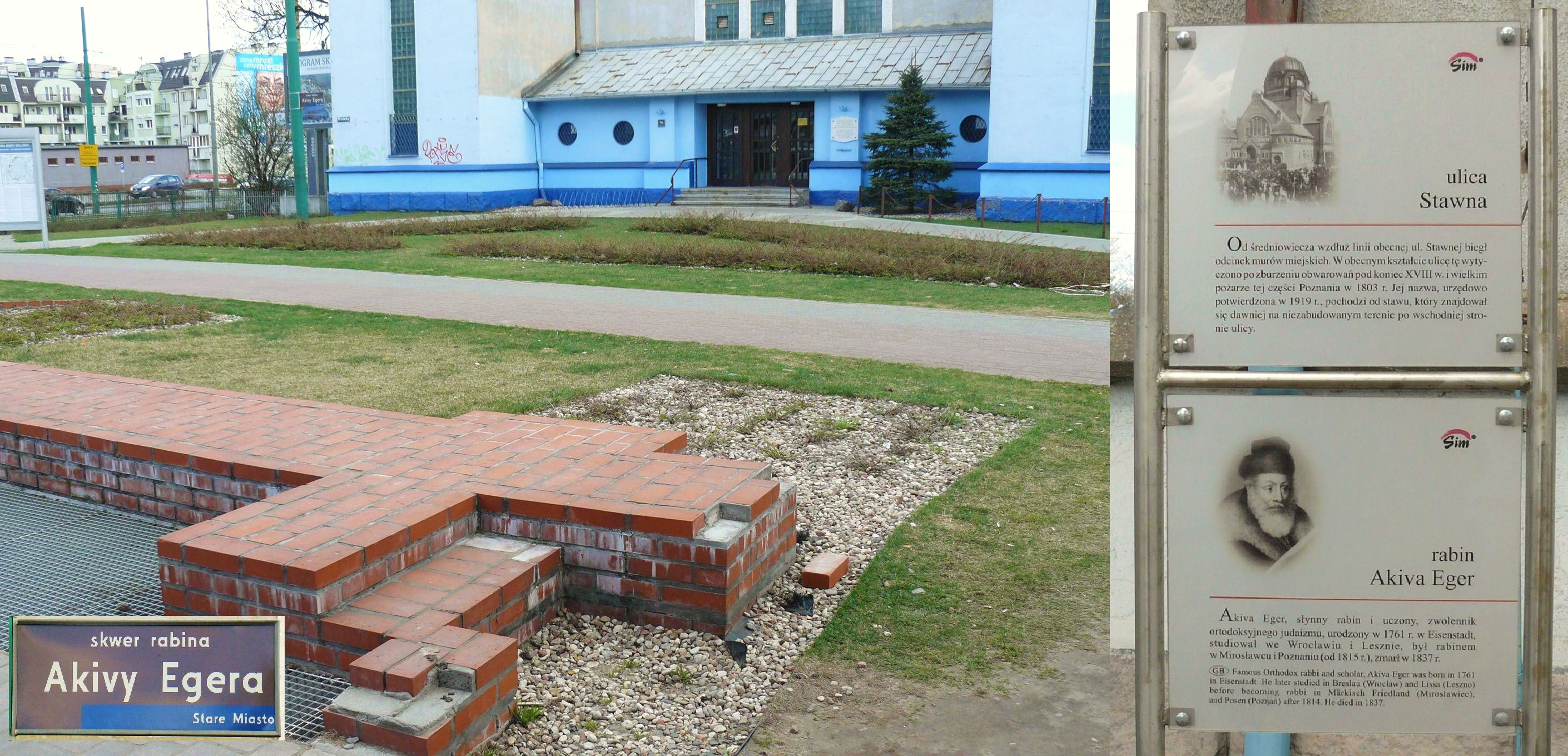 Akiva Eger Square, Poznan.